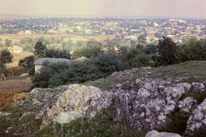 Ocnita district. By the way, was born in this village famous Moldavian cinematographer Emil Loteanu.